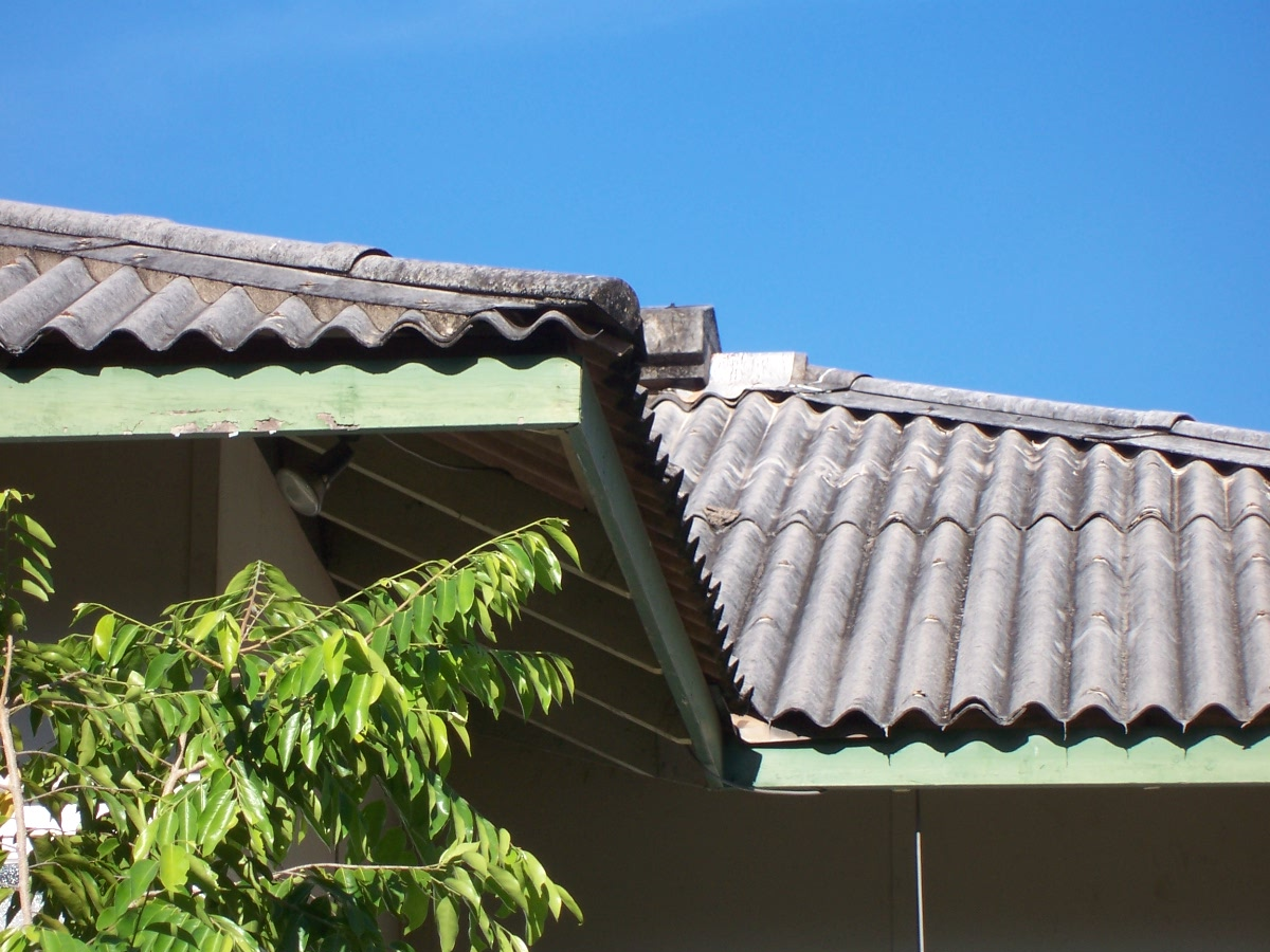 Photograph by Bill Bradley. billbeee 07:57, 6 May 2007 (UTC) Feel free to use it, just credit me as the photographer. You can contact me through my website